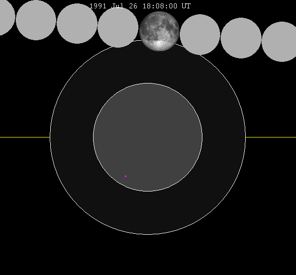 July 1991 lunar eclipse chart of moon's penumbral lunar eclipse path through the earth's shadow. thumb